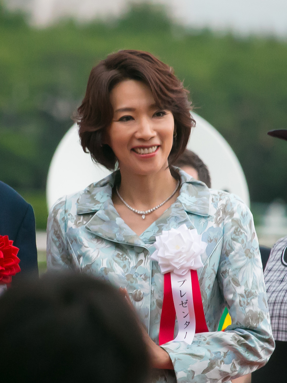 Tsubasa Makoto (Japanese Actress, vocalist)